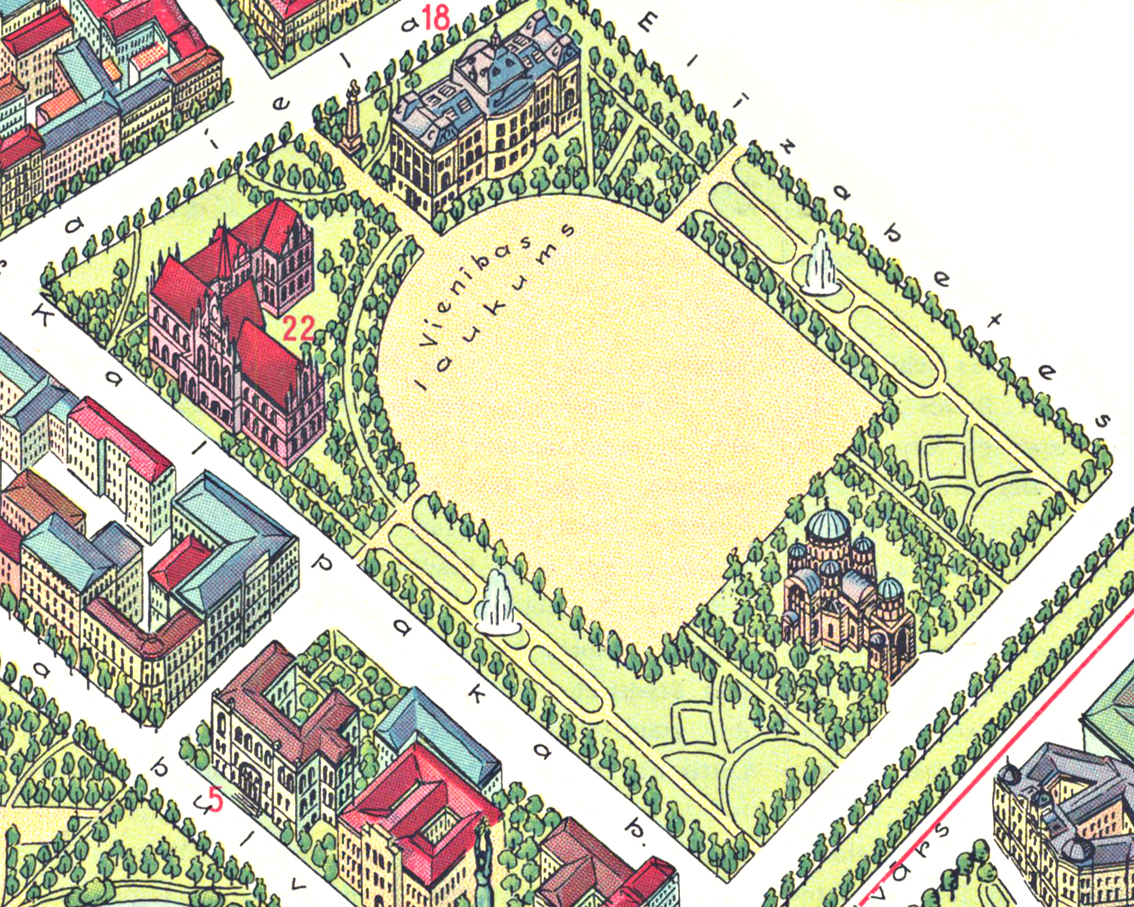 Latvia. Riga. Esplanade. The plan of 1935. Fragment.